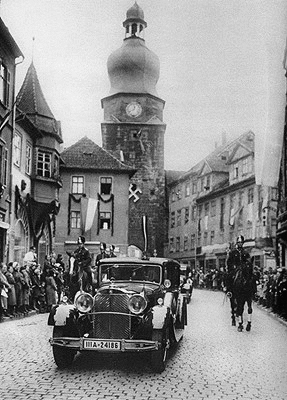 The wedding party in Coburg, on Steinweg en route from the Marktplatz, with the Spitaltor in the background. Probably heading for the Moriz church and the marriage ceremony there on October 20th.